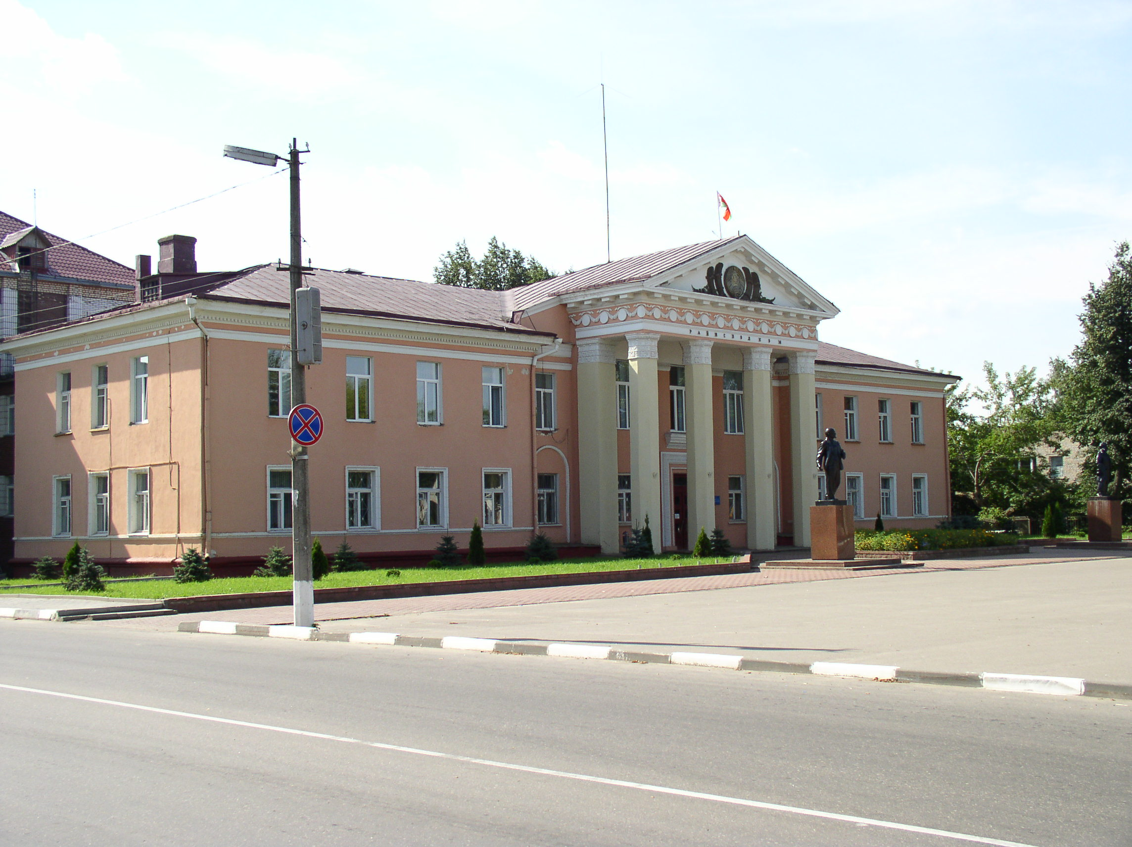 Region Executive Committee. Lahoisk, Belarus.